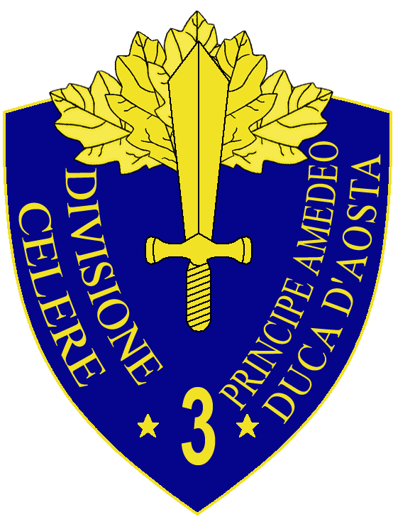 Coat of Arms of the WWII 3a Divisione Celere Principe Amedeo Duca d'Aosta of the Italian Regio Esercito